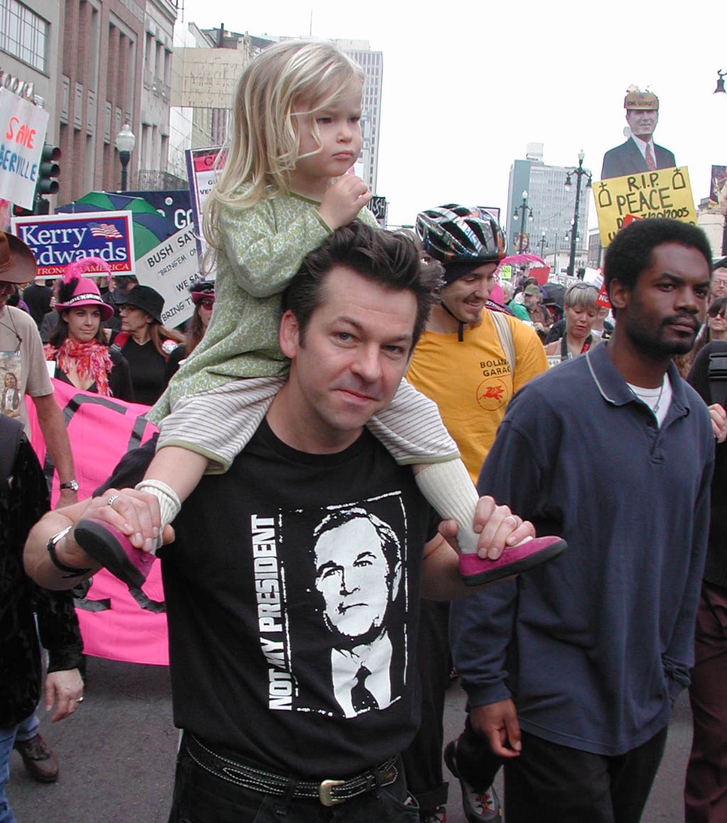 Marchers on Canal Street, "Jazz Funeral for Democracy" event, New Orleans Saxophonist Derek Huston and daughter.